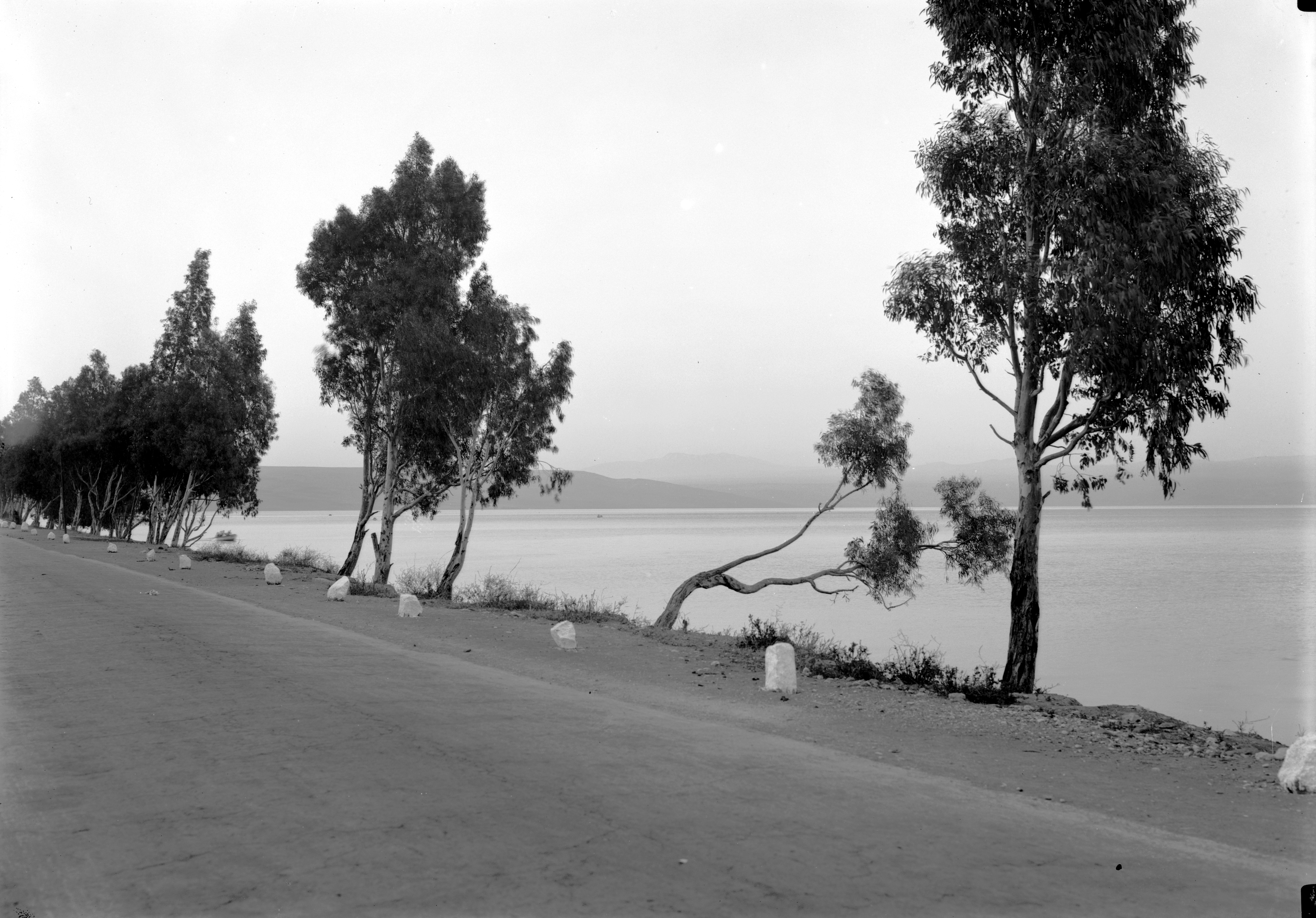 Sea of Galilee from Semakh Road. Original caption: “Lido, Tiberias, & Mt. Hermon. Sea of Galilee from Semakh Road”